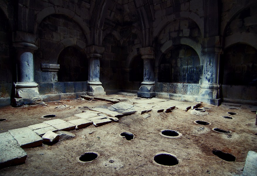 Haghpat Mon., Armenia. View: indoor